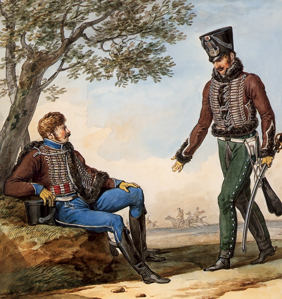 Part of a series chronicling the uniforms of Napoleon's Grande Armée.